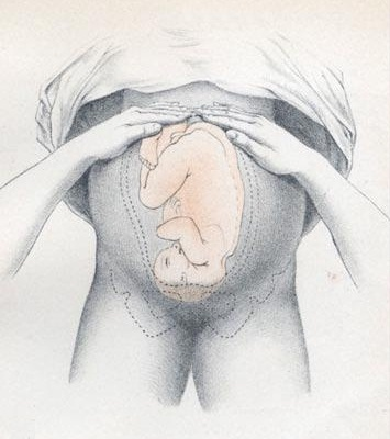 Leopold's Maneuver 1